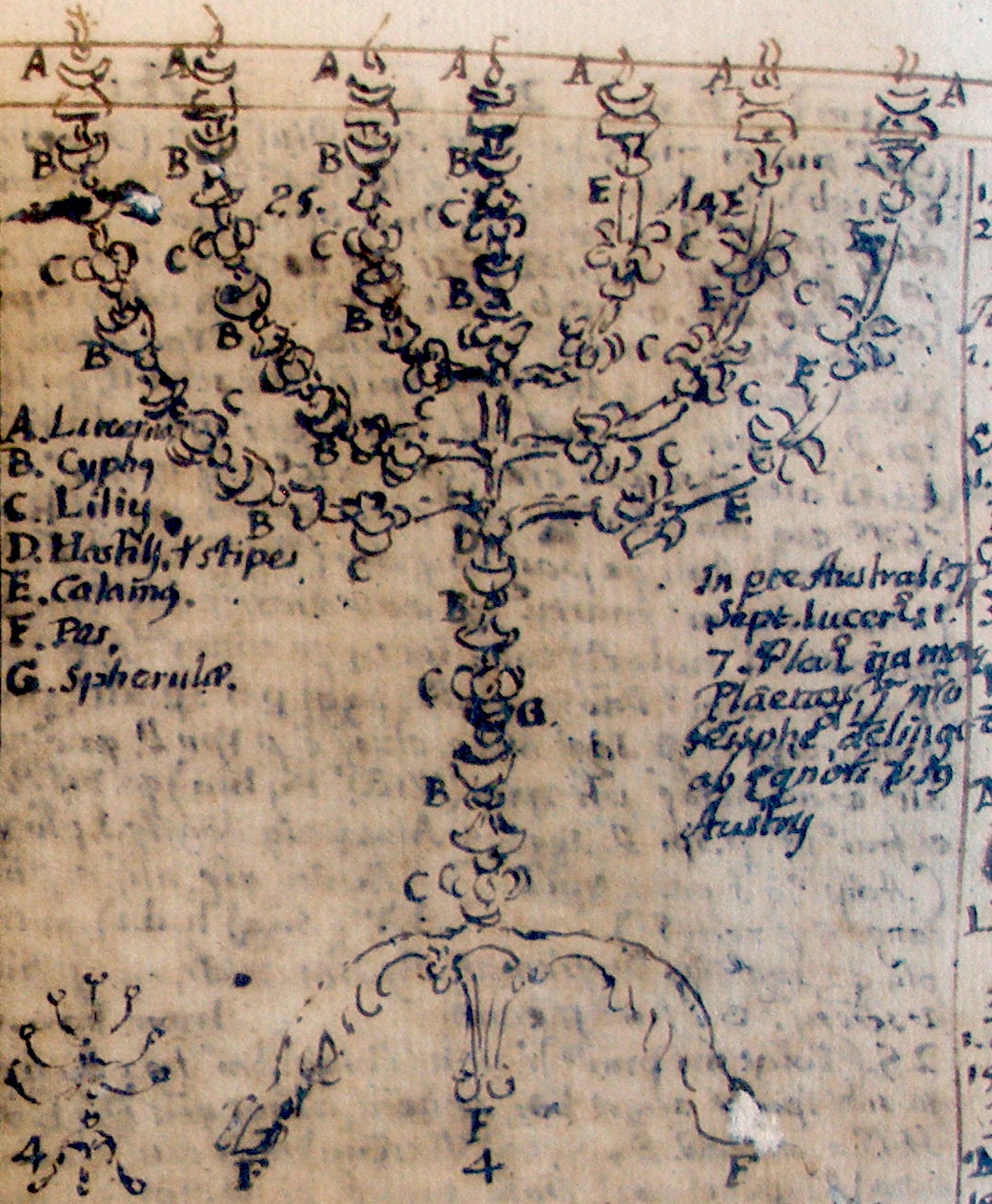 Fray Juan Ricci, Menorah, undated. Biblioteca de Montecassino cod. 469, fol. 200